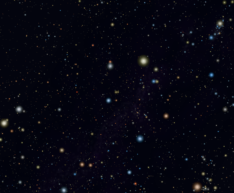 Image of Auriga